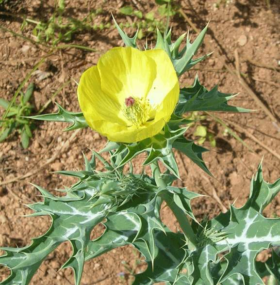 Argemone subfusiformis January 2006 Photograph by L. Shyamal